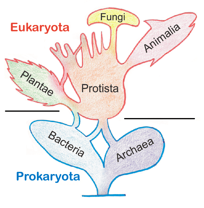 Phylogenetic-symbiogenetic tree of living organisms